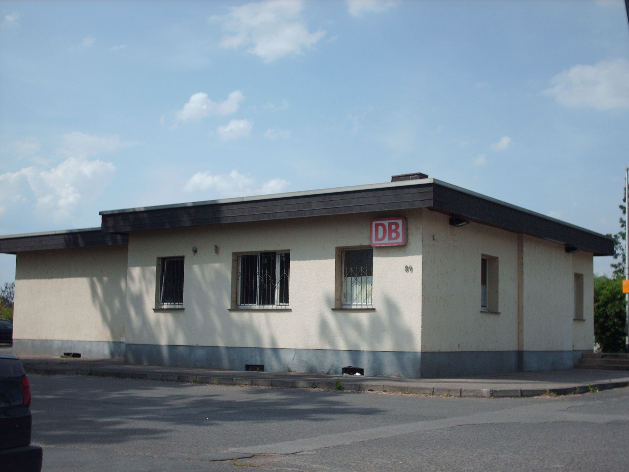 Kuchenheim station, Euskirchen, Germany check usage